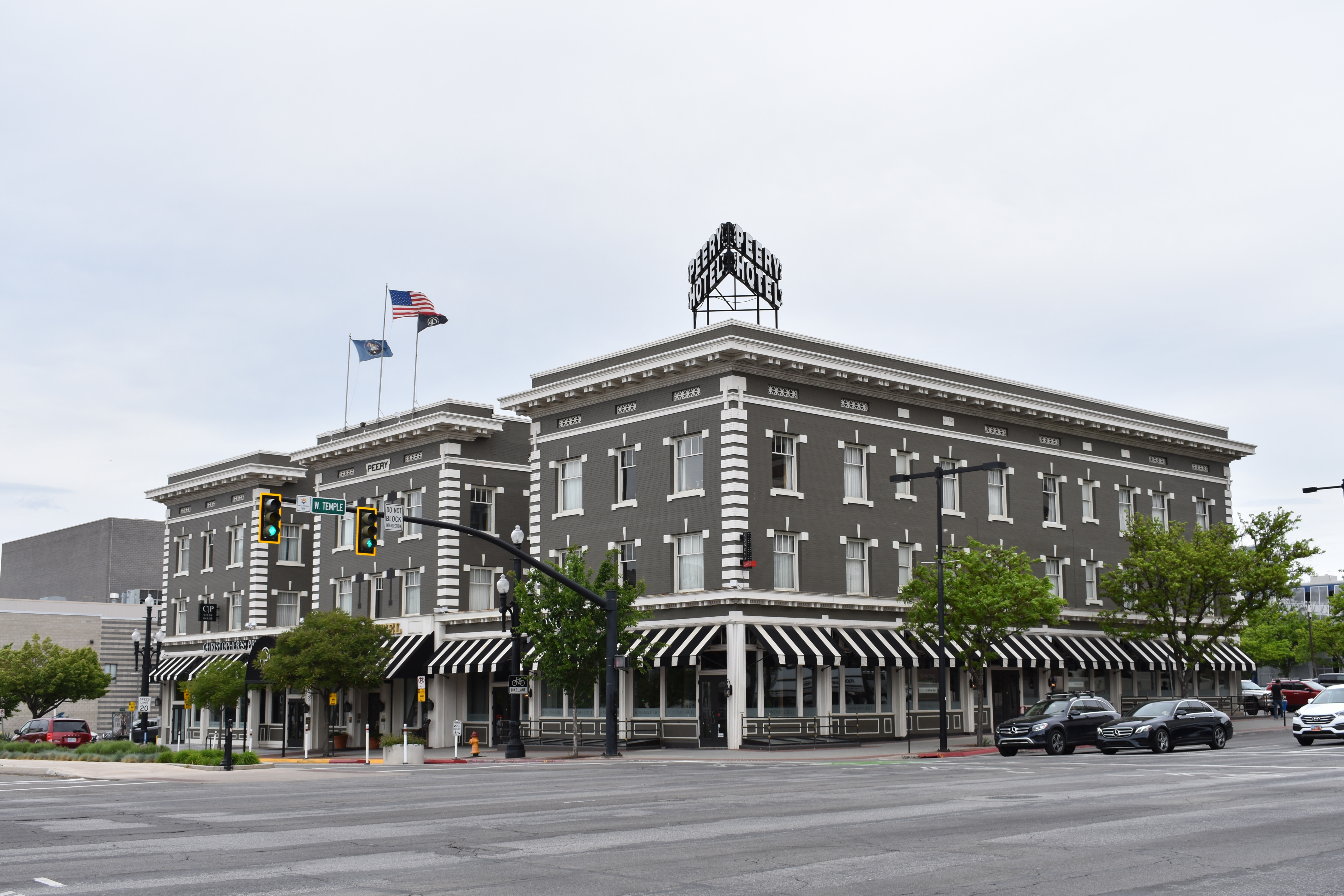 The Peery Hotel (1910) in Salt Lake City is listed on the National Register of Historic Places.